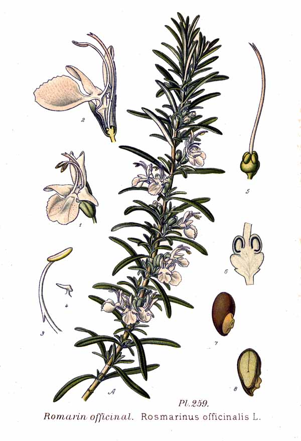 Rosmarinus officinalis L.